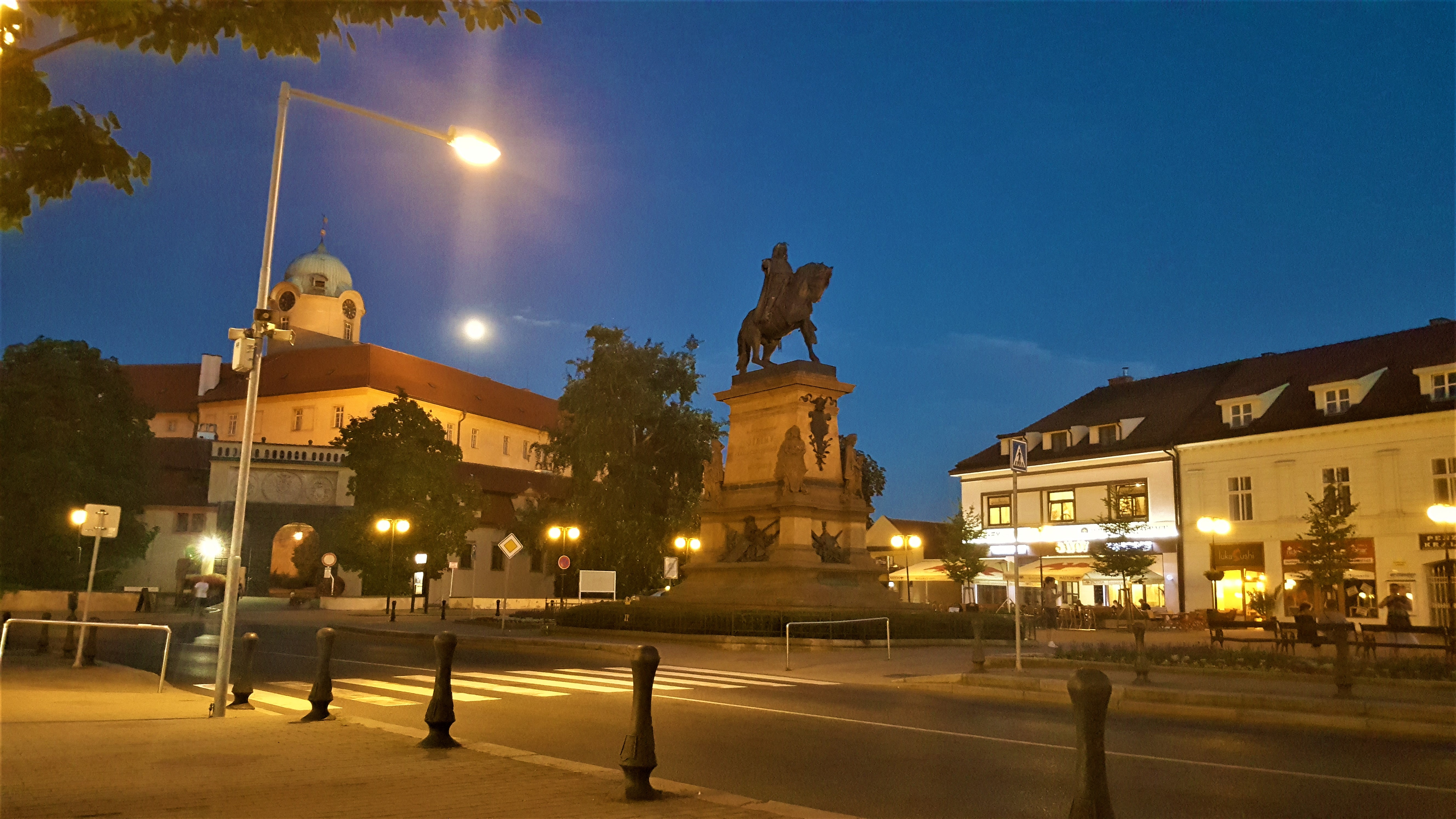 Podebrady Zamek (castle)